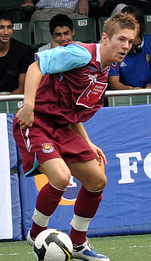 Daniel Kearns. Image cropped from original at flickr.